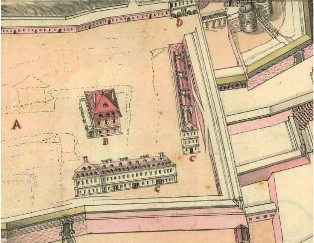 Detalj iz projekta N. Doksata sa prikazom kasarni i zgrade „Glavne straže” (Ratni arhiv u Beču, sig. K I f 23 – 71)